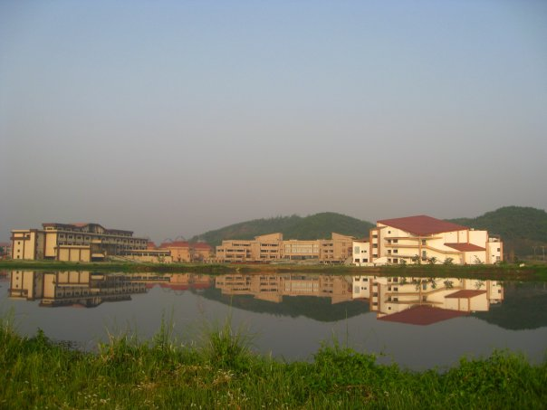 IITG